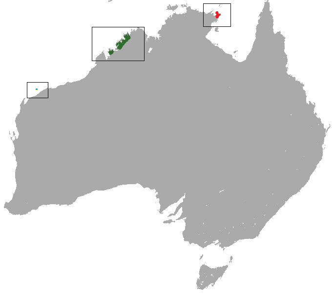 distribution of Isoodon auratus